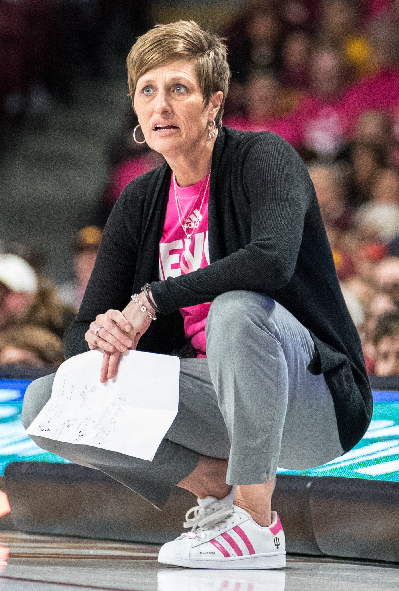 Teri Moren head coach of the Indiana University women's basketball team at a game against the Minnesota Golden Gophers in Minneapolis, Minnesota